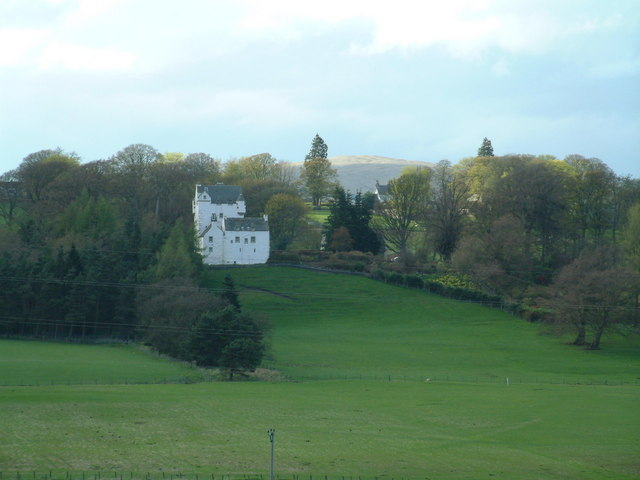 Aldie Castle. A 15th century tower, converted to a mansion in the 17th century.